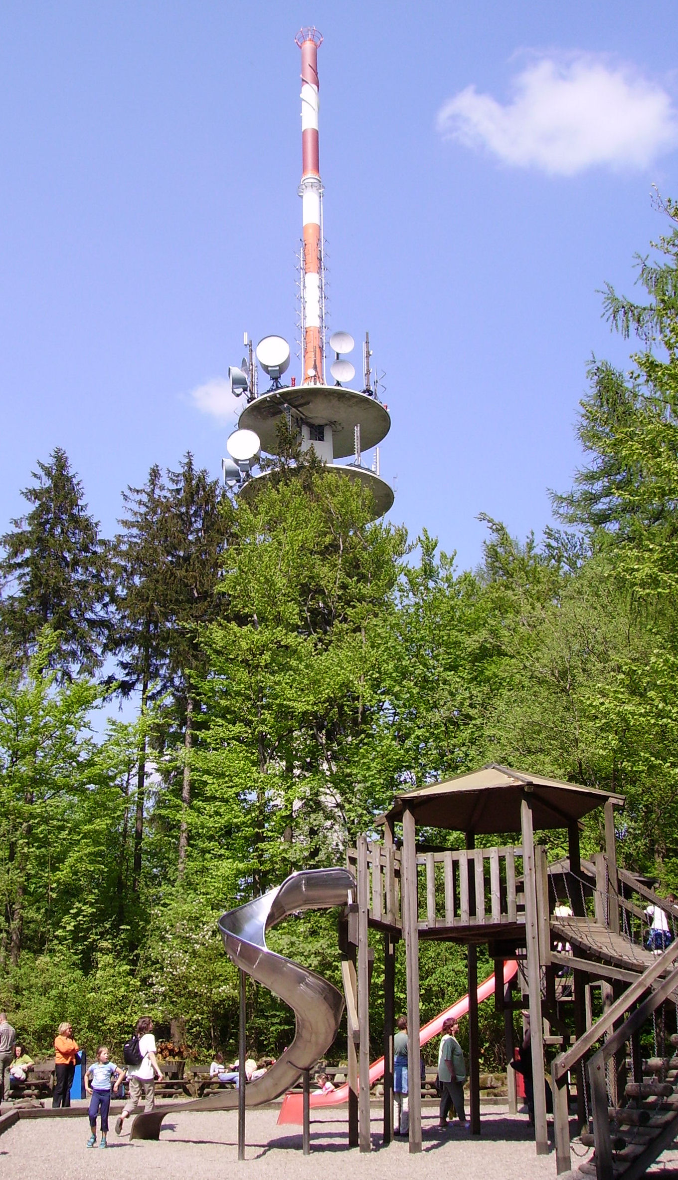 on top of Königstuhl (mountain) in Heidelberg, Germany